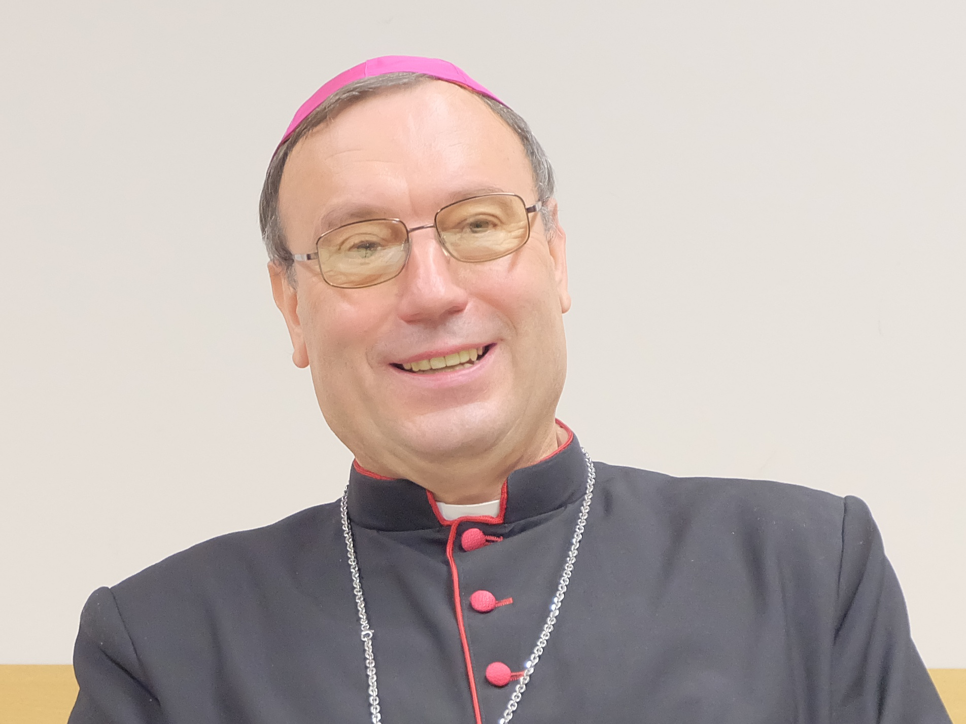 portrait of slovene archbishop of Maribor archdiocese, Alojzij Cvikl